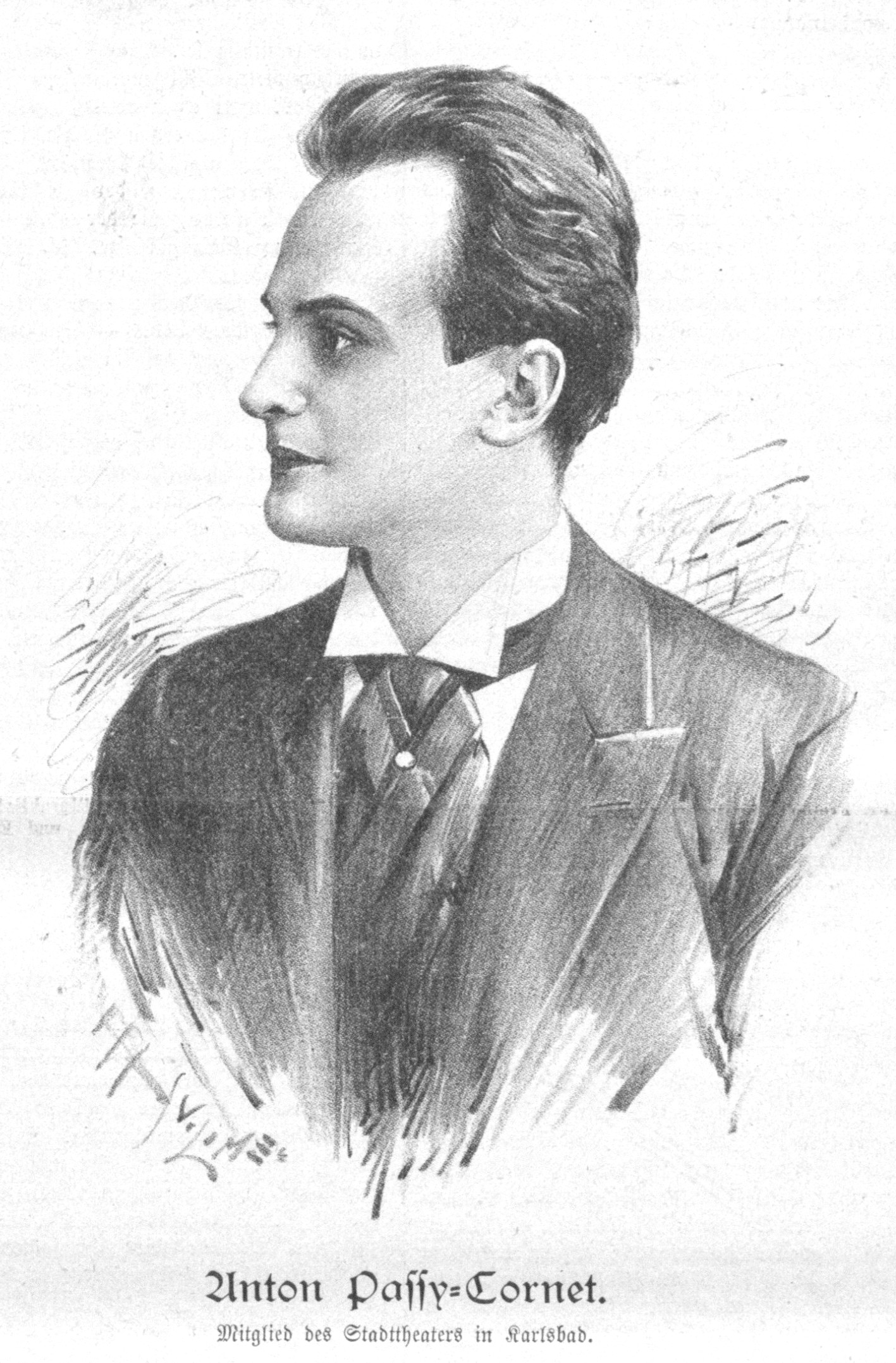 Portrait of Anton Passy-Cornet (1868-1934), Austrian opera singer.